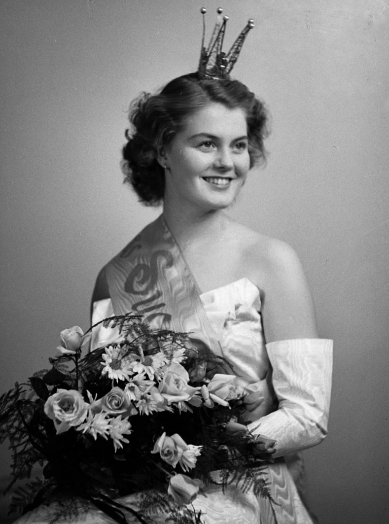 Hilkka Ruuska in 1951.